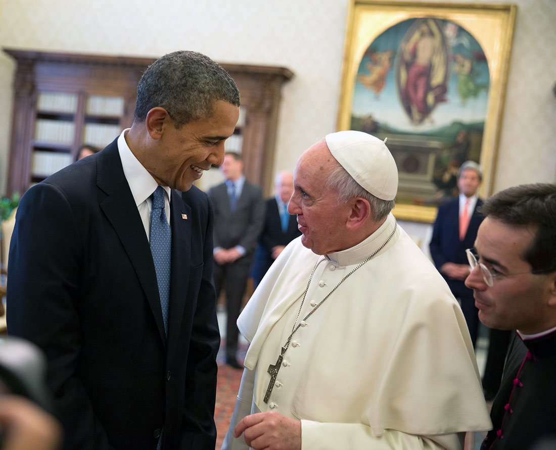 Pope Francis meets President of the United States Barack Obama in the Vatican on 27 March 2014.